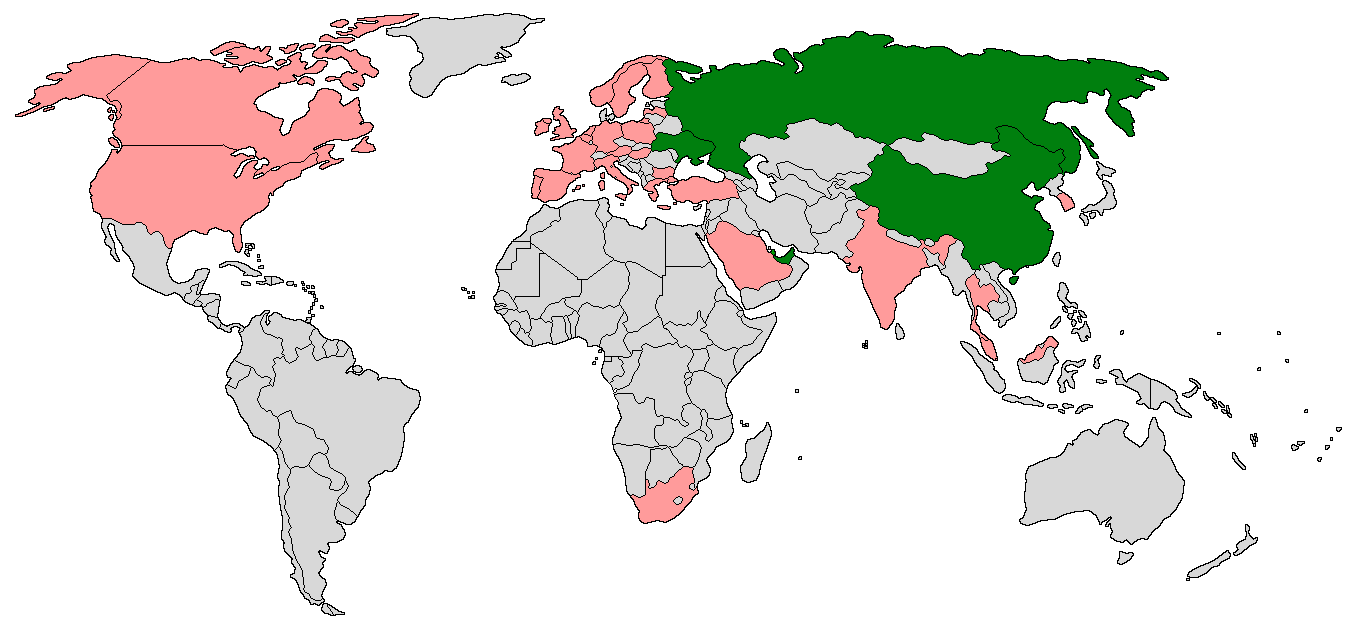 World map displaying the countries raced in by the Formula 1 Powerboat World Championship in its 2012 season in green. Former host nations shown in pink.